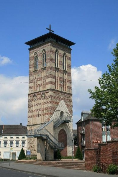 Cultural heritage monument No. 49 in Nettetal